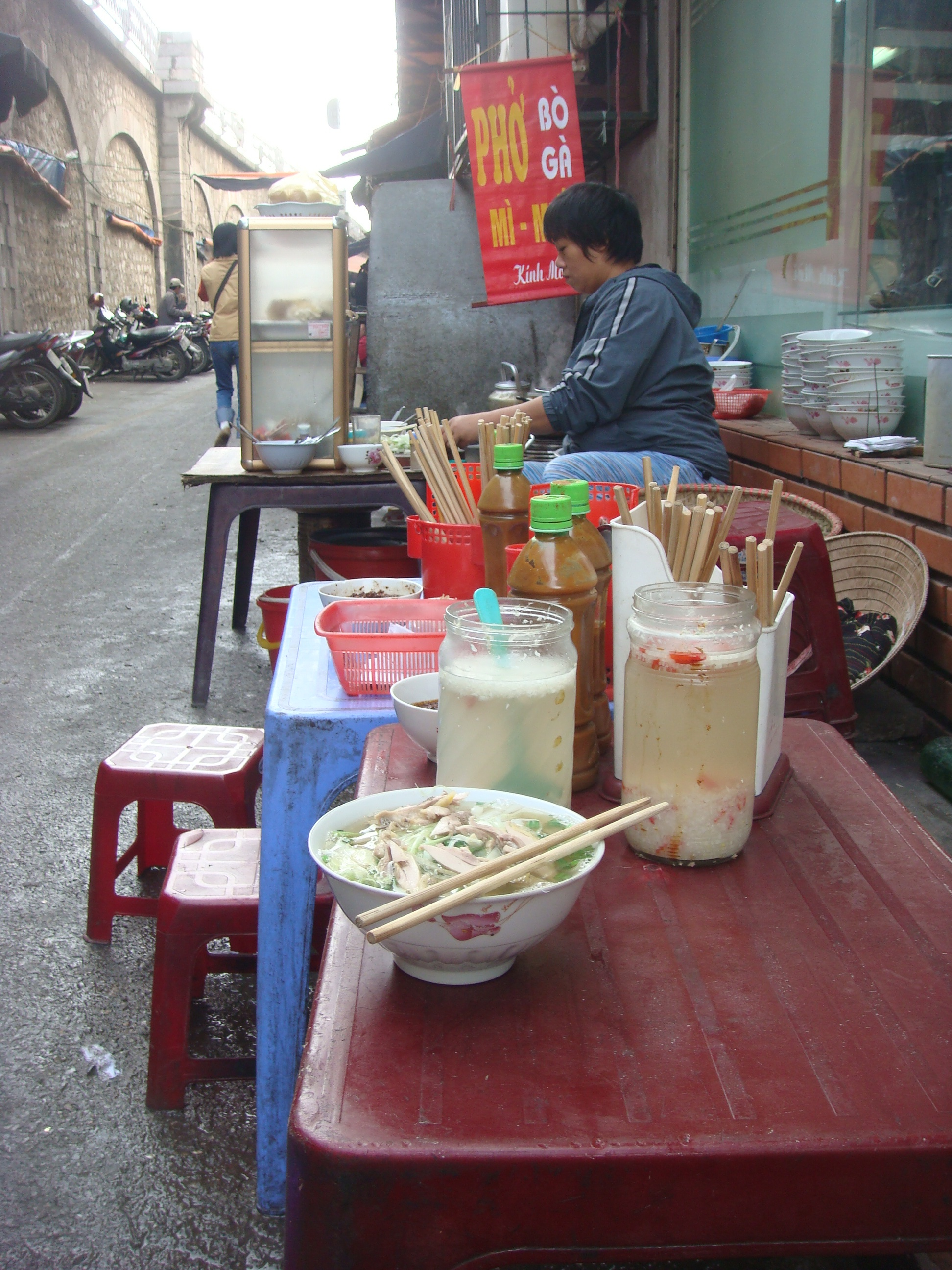 Pho ga sold by a street vendor in Hanoi. Taken Feb 2009